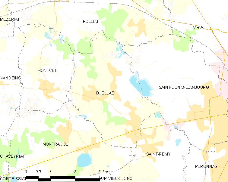 Map of French commune: Buellas Map commune FR insee code 01065.png